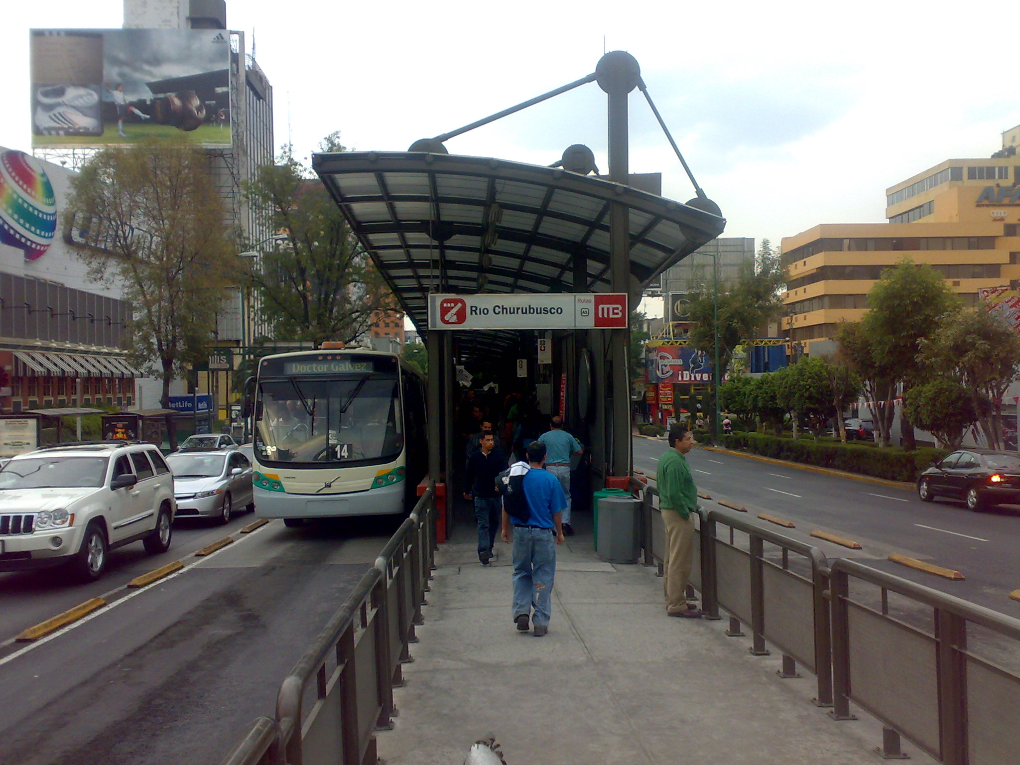 Metrobús in the station, Curubusco, Mexico City.